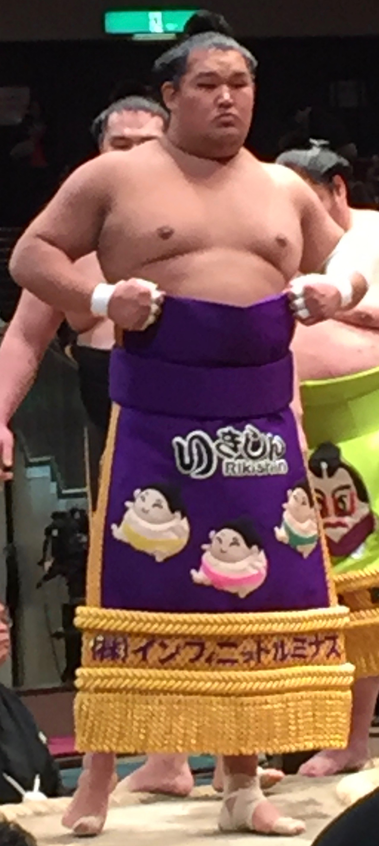 taken at Jan 2017 tournament